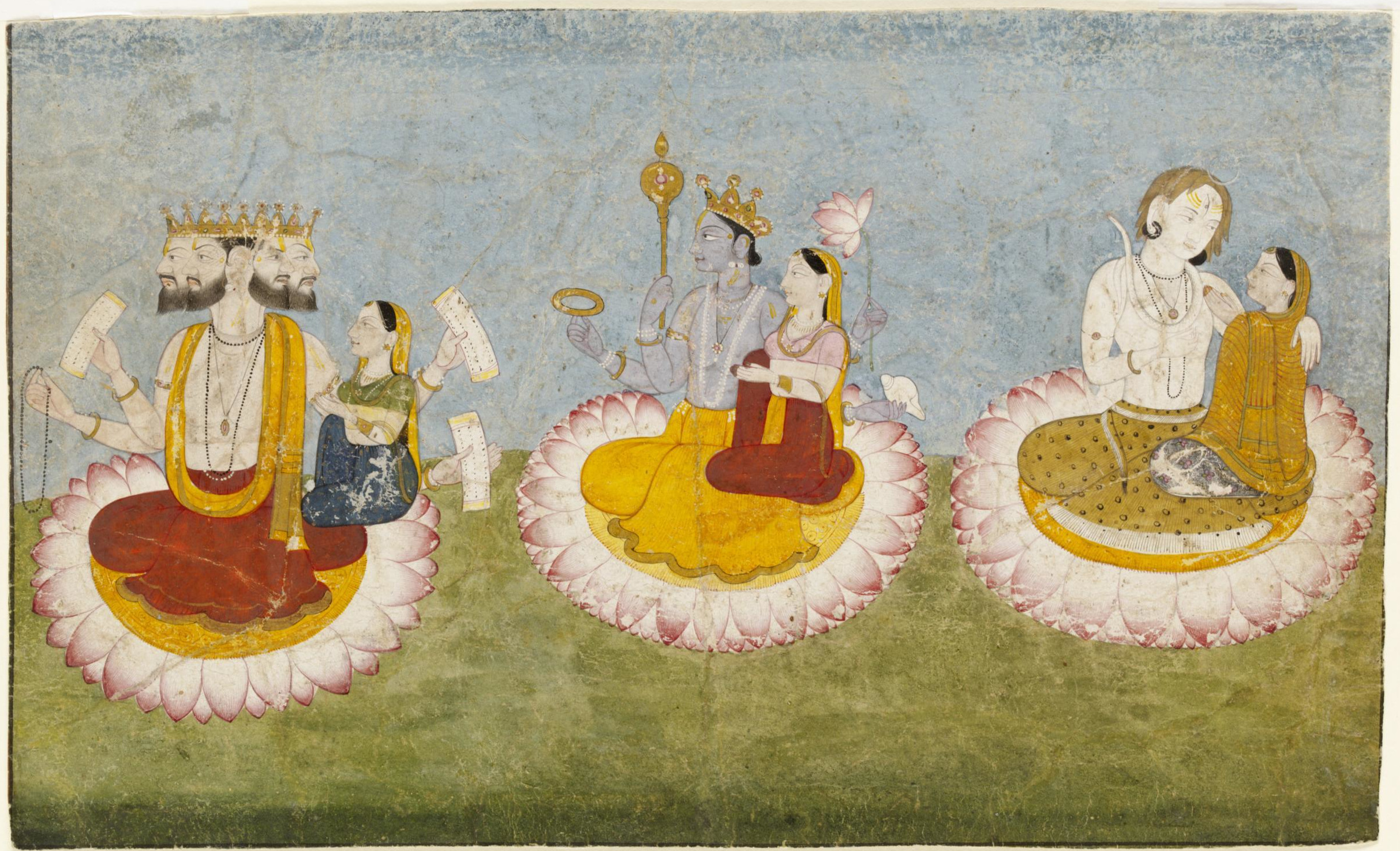 Brahma, Vishnu and Shiva seated on lotuses with their consorts, Saraswati, Lakshmi and Paravati respectively. ca 1770. Guler, India. "The three greatest Hindu deities are shown here together with their consorts. They are sometimes regarded as a trinity, who together represent aspects of the supreme godhead. The four-headed Brahma, holding copies of the oldest Indian sacred scriptures, the Vedas, together with his consort Saraswati, symbolises the power of creation. Next to him the blue Vishnu, with his consort Lakshmi, represents the energy that upholds and preserves creation. To their right Shiva, with his wife Parvati, embodies the power of destruction. All three divine couples sit on lotus flowers, which are one of the most ancient Indian symbols of purity and spiritual power. This painting may have been made for the enjoyment of a local nobleman or ruler and was probably the work of local artists in north-west India."